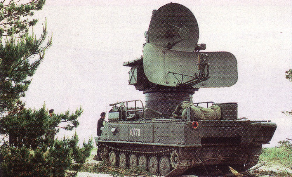 SA-6